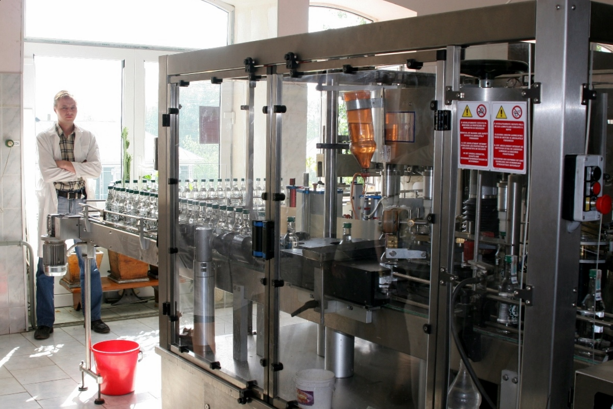 Vodka bottling machine, Shatskaya Vodka distillery, Shatsk, Ryazan Oblast, Russia.